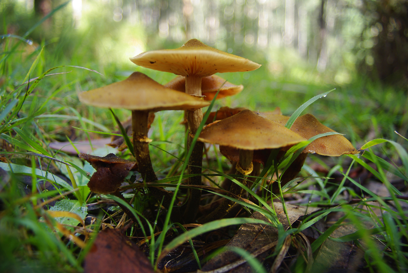 The honey mushroom Armillaria luteobubalina Watling & Kile. Specimen photographed in Dandenong Ranges National Park, Victoria, Australia.